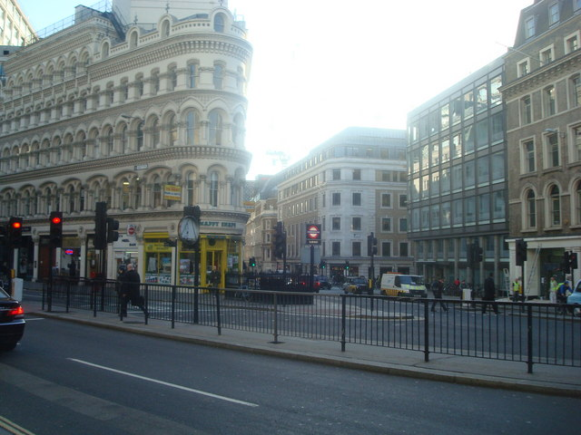 Cannon Street, junction with Queen Victoria Street